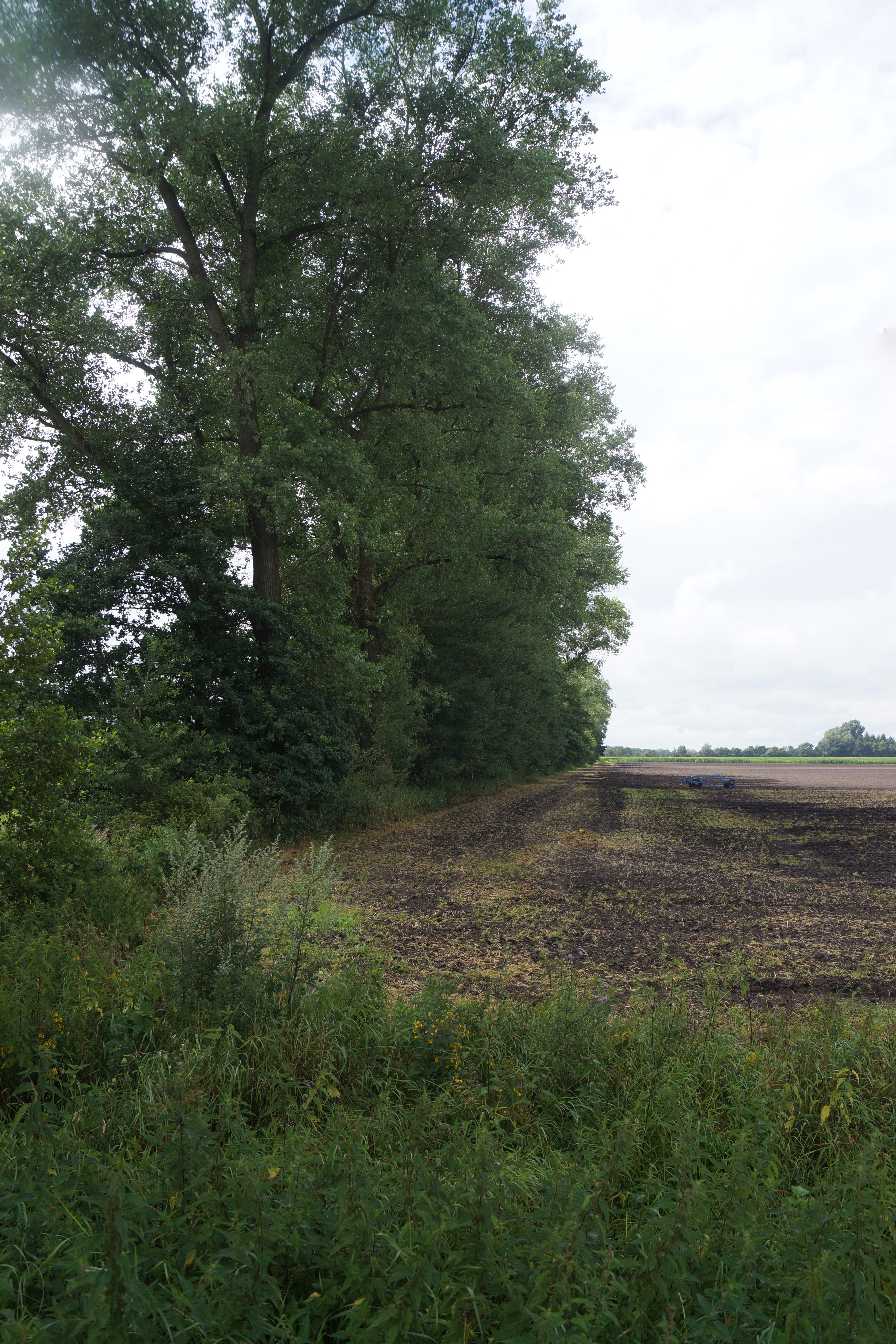 Bimöhlen, Germany: The river Holmau in wastern direction